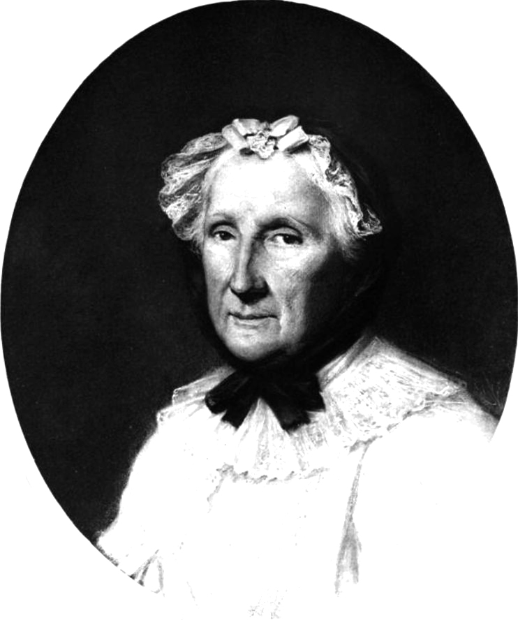 Portrait of Marie Thérèse Rodet Geoffrin (1699-1777), French hostess.